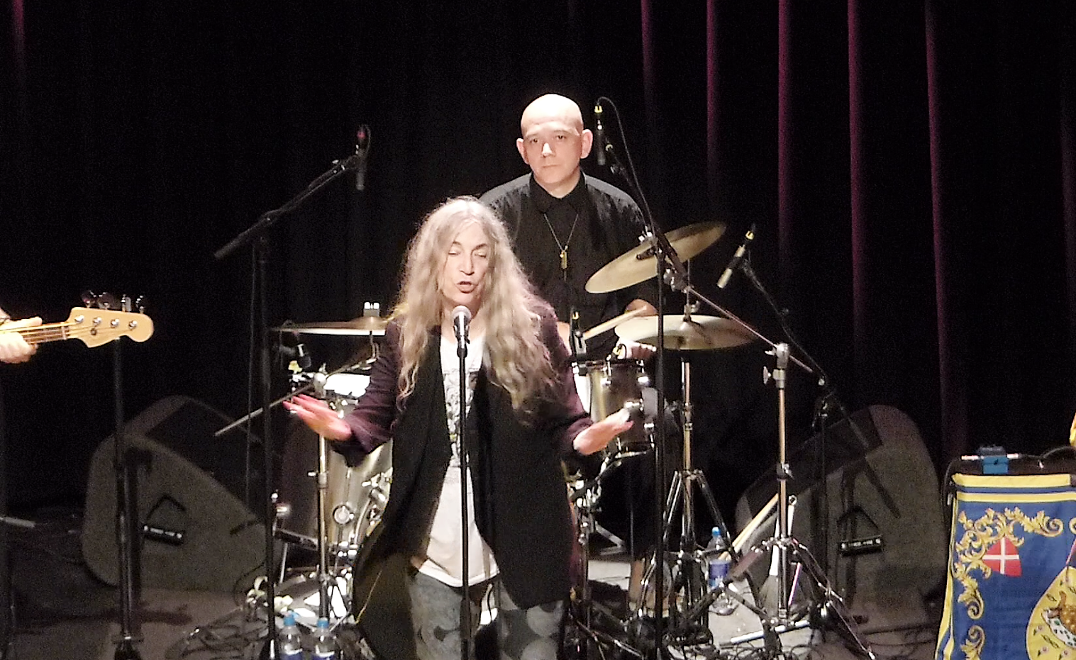 Patti Smith in Paradiso, Amsterdam on the 6th of August, 2018.